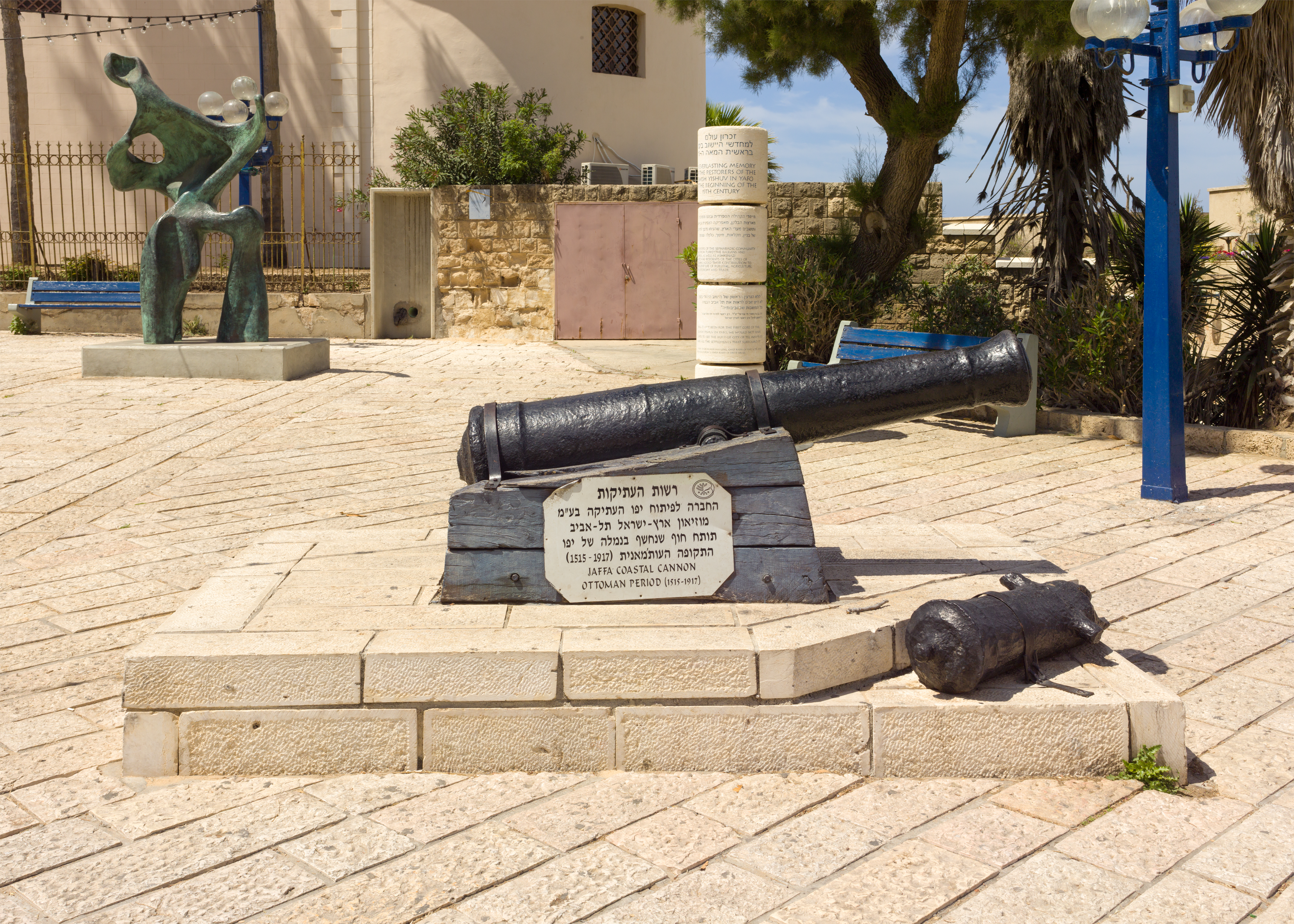 Coastal defense cannon in Jaffa.